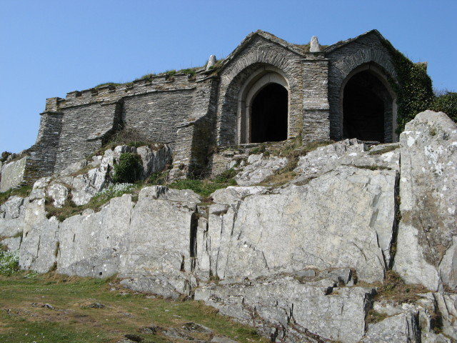 Penlee Chapel, Cawsand The side view of Penlee Chapel which is built into the cliff rocks.